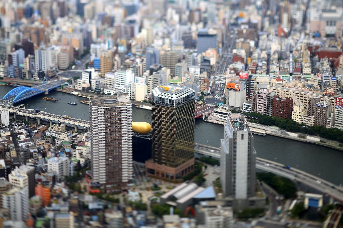 taken from The observation deck of Tokyo Skytree with Canon EOS 5D MarkⅡ：Canon TS-E 90mm F2.8 the left building is Riverpia Azumabashi Life Tower, the central building is the Asahi Beer Tower,the right building is Sumida-ku governent office. Tokyo Skytree Nakayan's site Super-high-rise apartments and super-high-rise buildings (in Japanese) is here Nakayan's tilt-shift-fake (Hakoniwa photos) datail and slideshow is here Tilt Shift Showcase from Koji Nakaya Nakayan's 3D anaglyph(for slideshow) is here Nakayan's New Book!! 超高層ビビル 3 ドバイ編 (Skyscrapers Vol 3) by Koji Nakaya